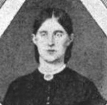 Caroline Neville Pearre, from an 1894 publication. Born near Clarksville, Tennessee; raised in Mackinaw, Illinois; Eureka College alumni and teacher.